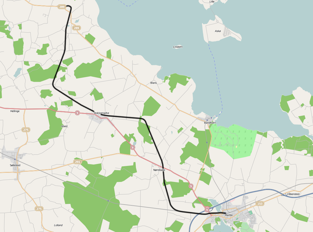 Railway line Maribo - Torrig